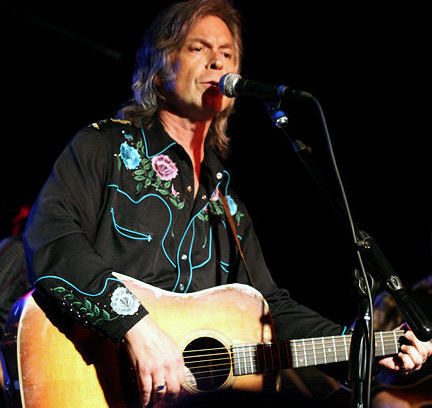 Jim Lauderdale